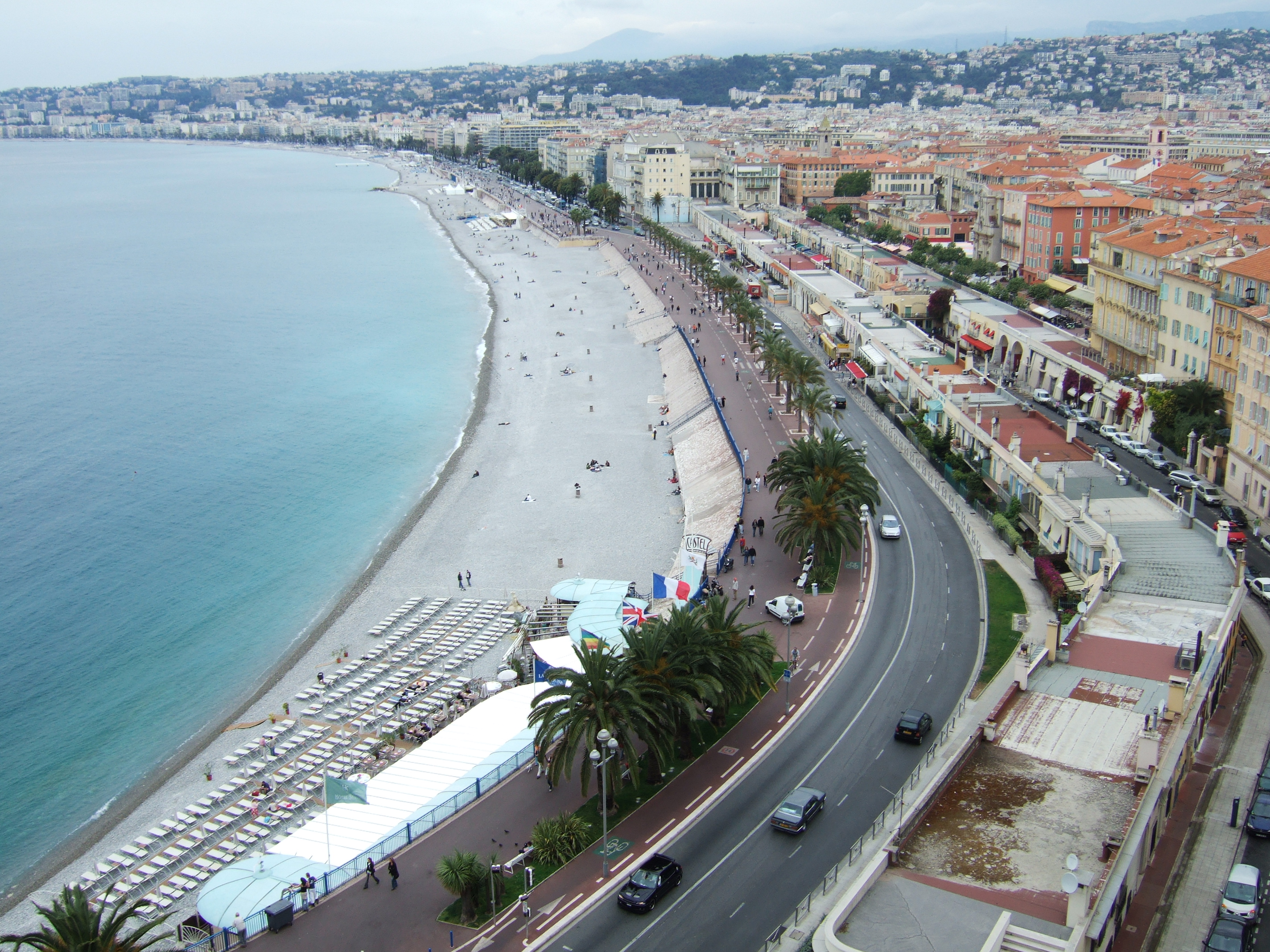 View of the foreshore of Nice from the nearby hill château. Looking vaguely southwest. Own work.